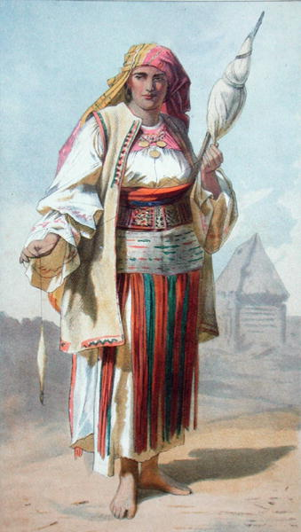 'A Wallack Woman', colour litho